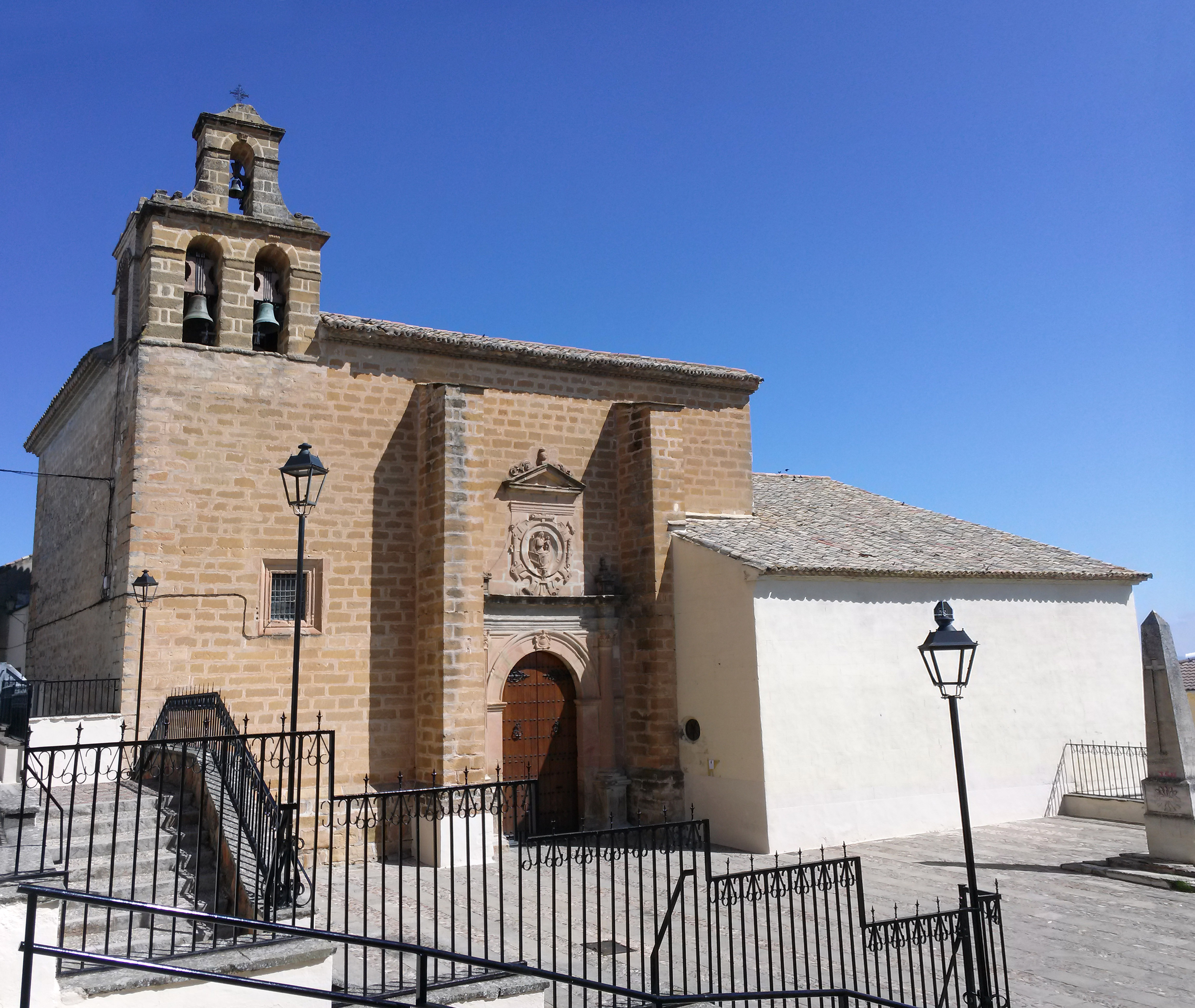 Iglesia de la Encarnación de Jabalquinto (Jaén).